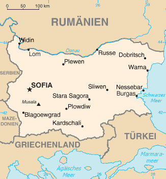 Bulgaria map from The World Factbook